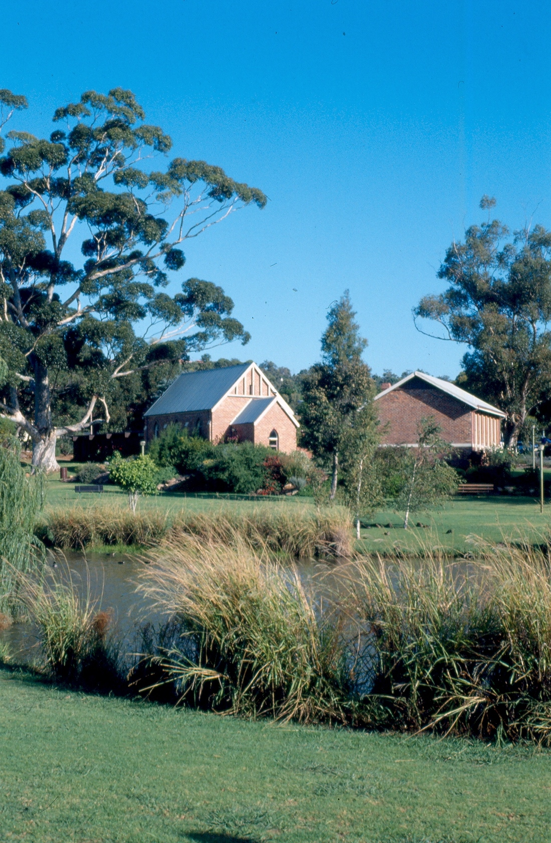 Relocated Congregational Church (1903) and Primary School (1899) in Minnawarra Park, Armadale. Scan of negative. Photograph taken by Ian L Boersma, 1991.